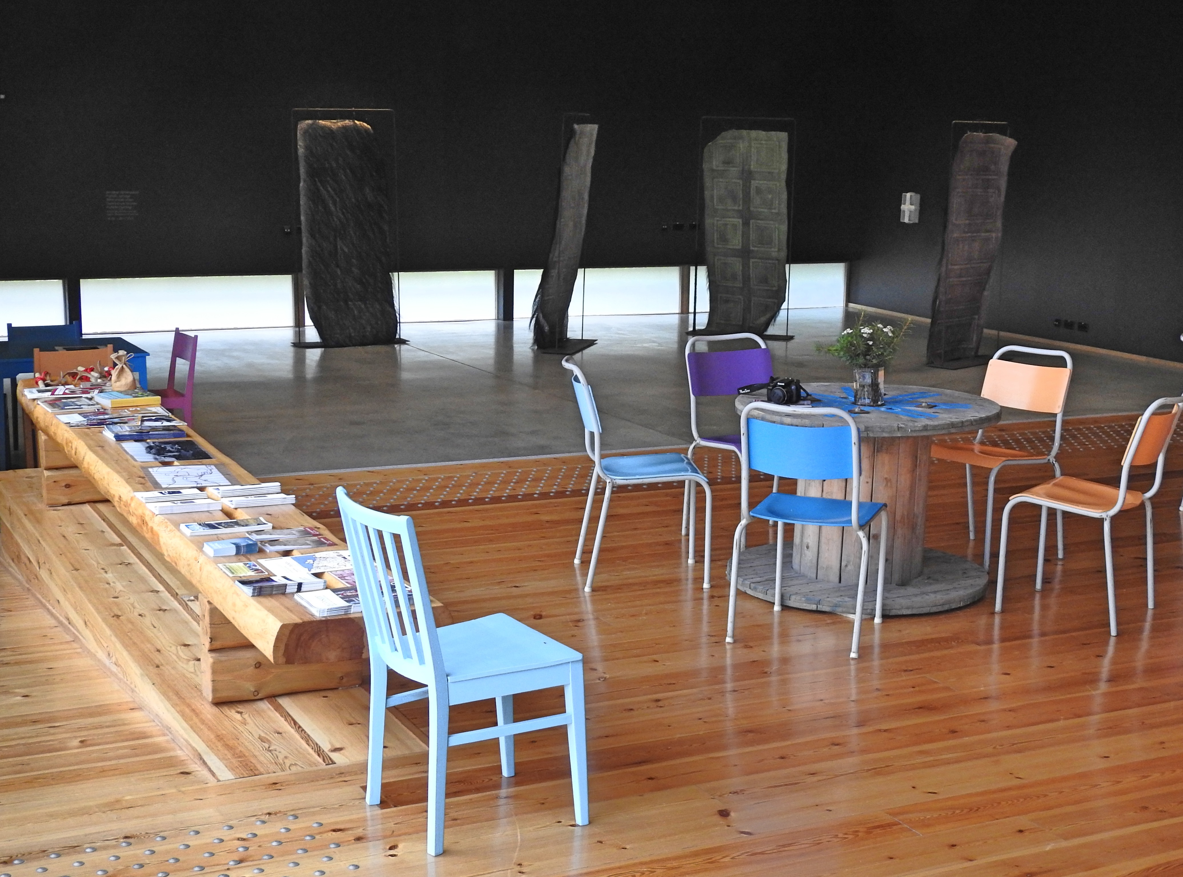 Coffee shop at the Äʹvv Skoltsami Museum in Neiden